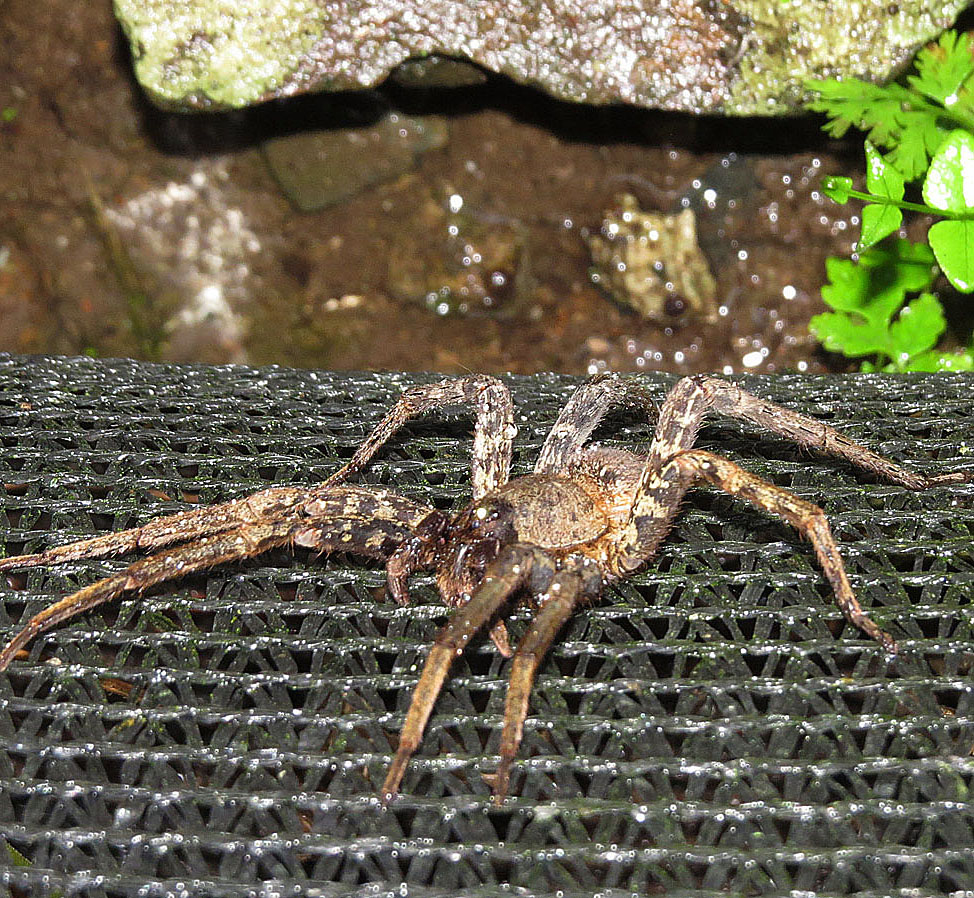 These are well adapted to fishing. The can walk on water, using air trapped in leg hairs. They can dive for extended periods and even weave a web under water. Their range is Costa Rica to Argentina.